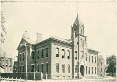 Photograph of St. Mary's School in Bloomington, Illinois published in 1896. Taken from a digitized Illustrated Bloomington and Normal